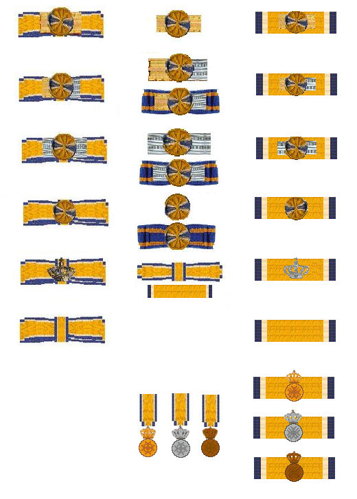 Batons and small insignia for the lapel of the Order of Orange-Nassau